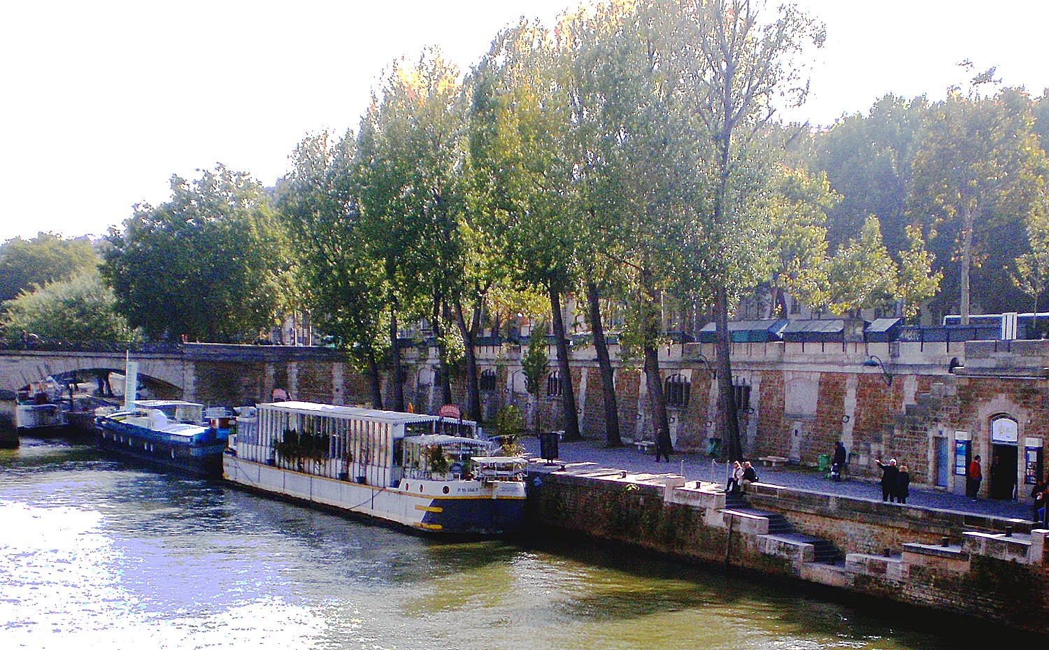 Quai et port de Montebello - Paris